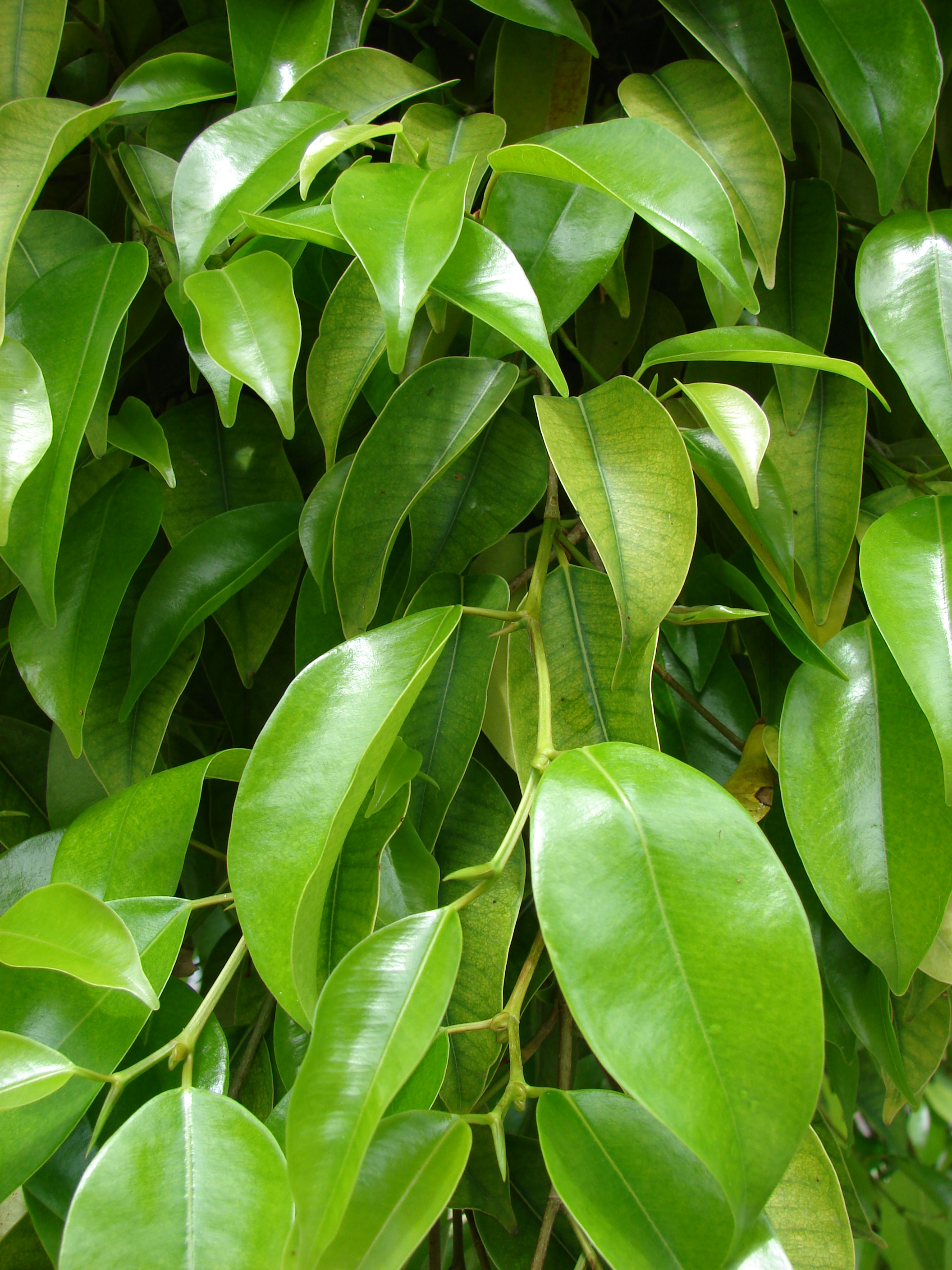 Ficus benjamina (leaves). Location: Midway Atoll, Gym Sand Island